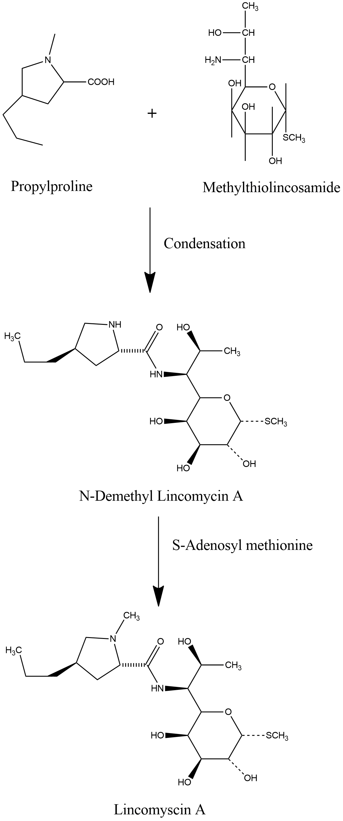 Example of chemical synthesis process for Lincomycin A. Propylproline and Methylthiolincosamide are joined via a condensation reaction, and subsequently methylated via S-adenosylmethionine to form Lincomycin A